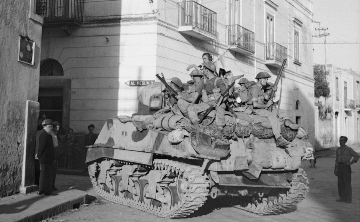 Sherman III (M4A2) tank of the Scots Greys carrying troops of the 1/6th Queen's Regiment during mopping up operations in Torre Annunciata, 1 October 1943.